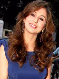 Urmila Matondkar at the launch of Areopagus spa